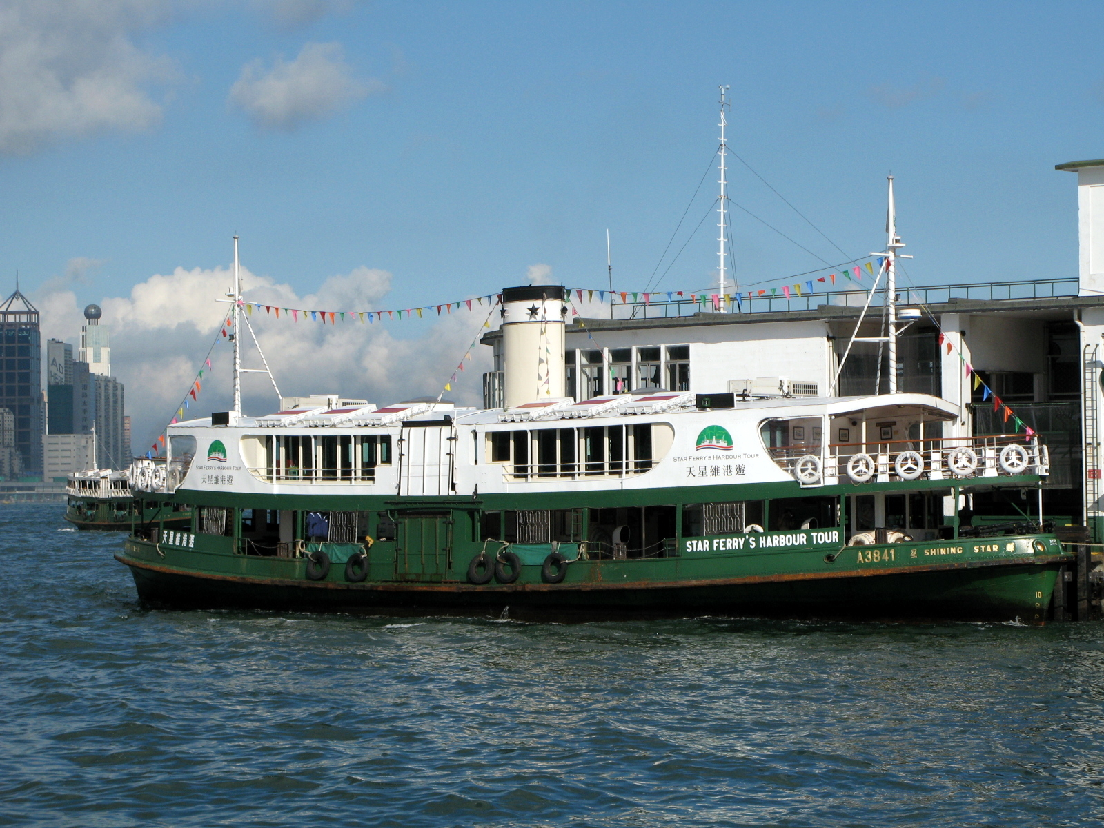 HK Star Ferry Harbour Tour Ship